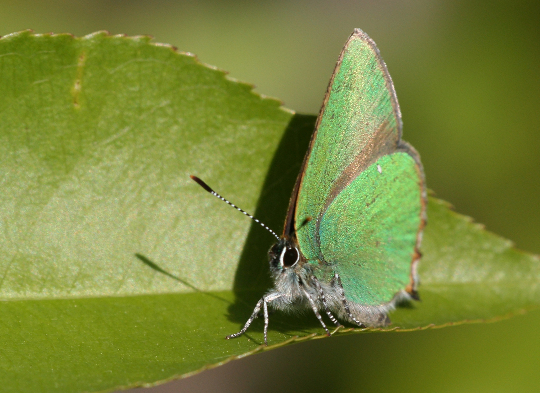 Callophrys rubi 23 april 2007 Bussummerheide, Hilversum